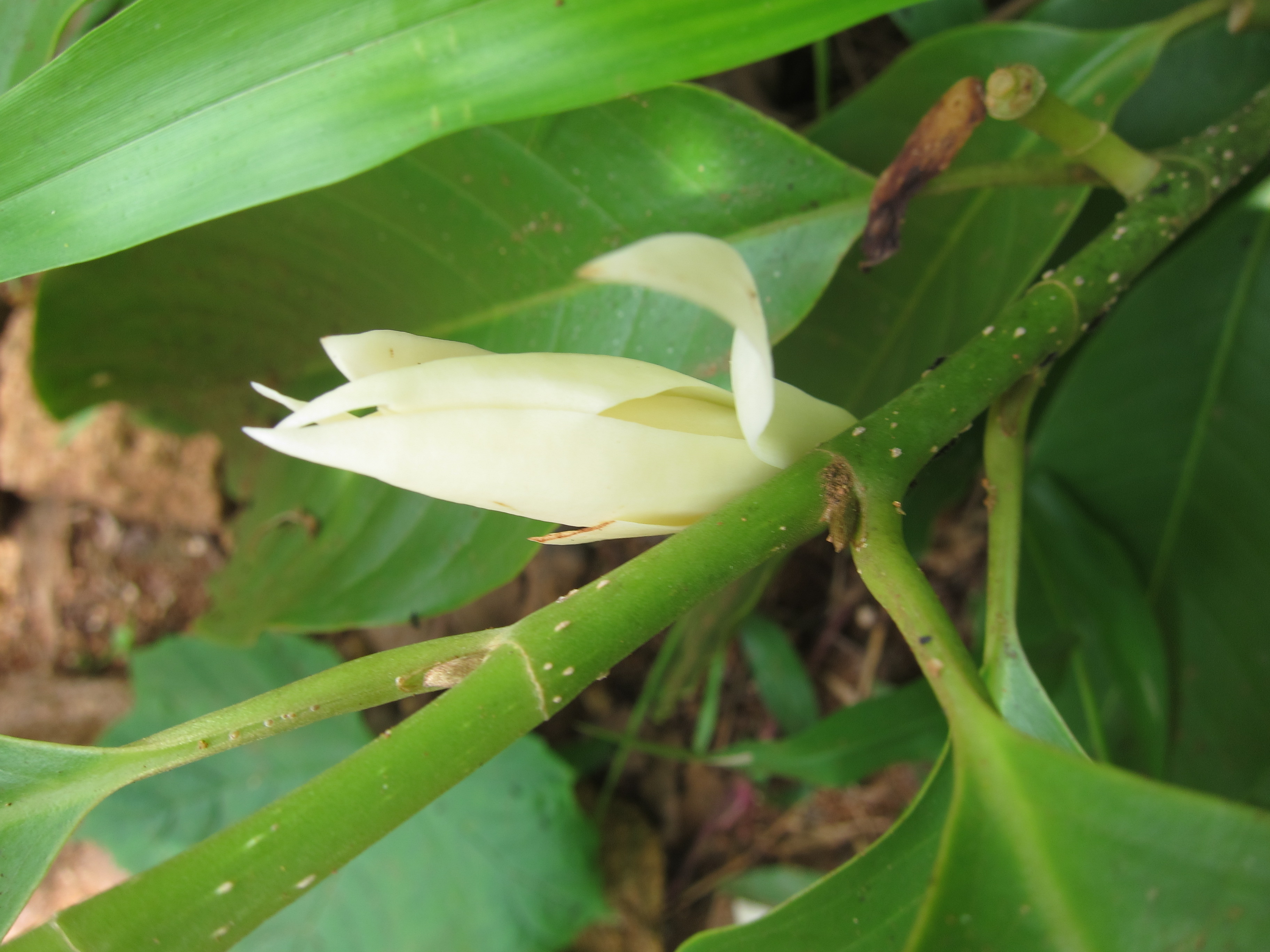 Champak (Champa) Michelia champaca